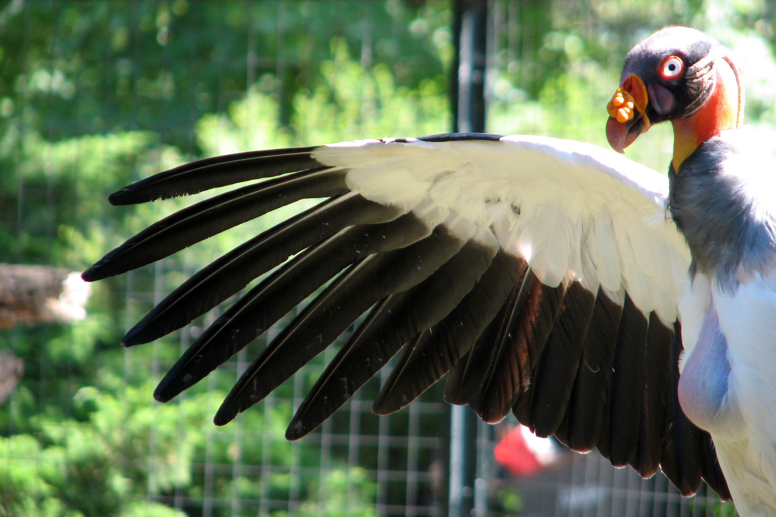 King Vulture at Berlin Zoo, Germany.